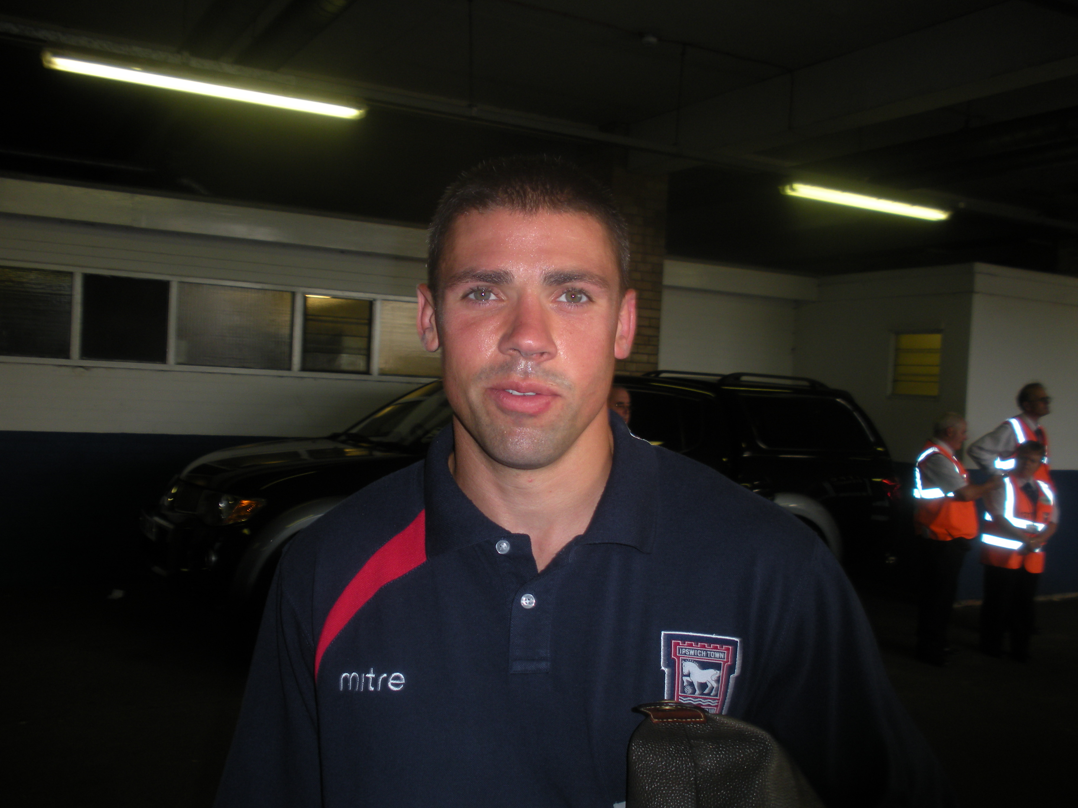 Jon Walters, Ipswich Town player. Author also gives permission for image to be used by Simply Blue